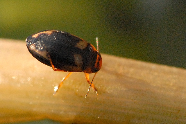 Hydroporus palustris from Commanster, Belgian High Ardennes .